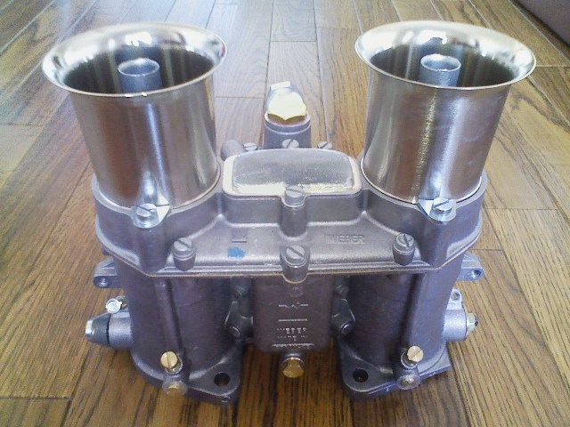 Weber 48IDA carburetor